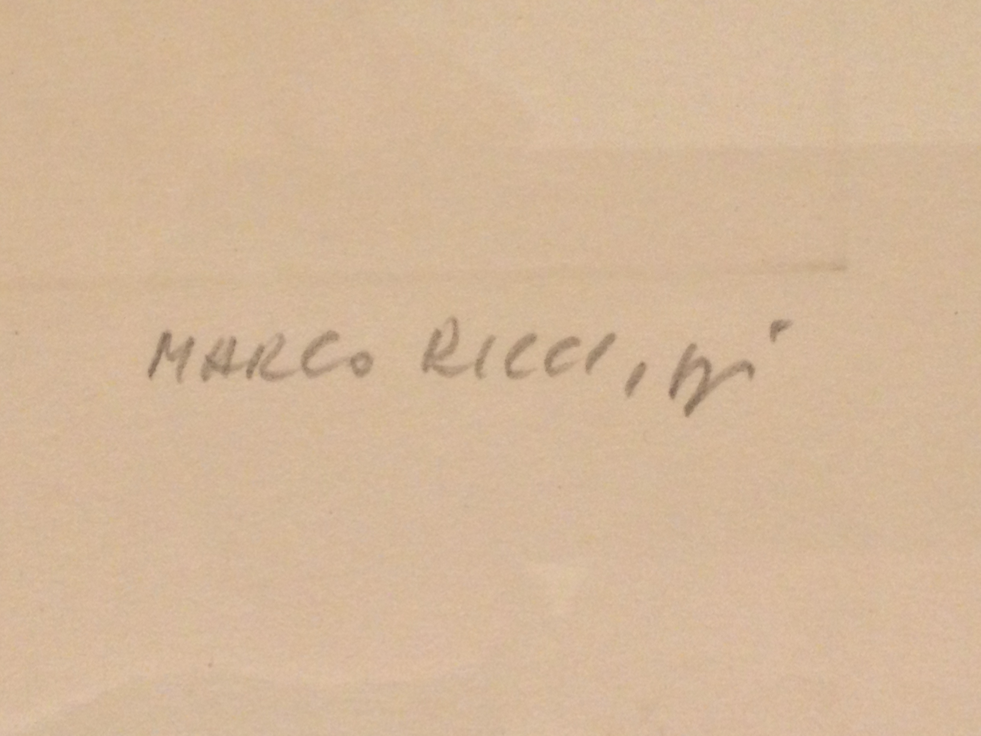 Example of the characteristic signature of Marco Ricci's works which does not indicate any date, but says only "Today" after the comma.